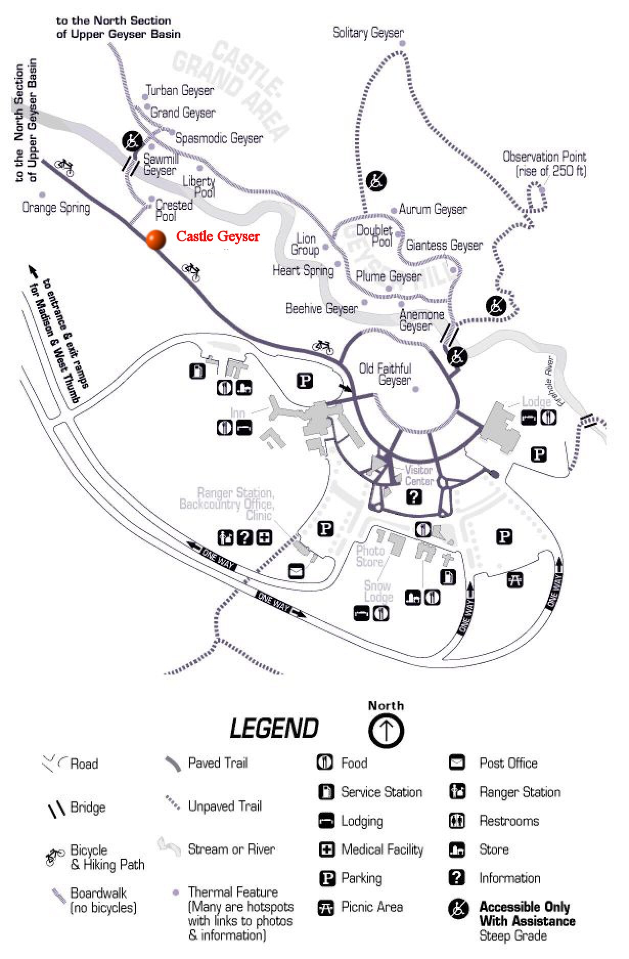 Southern section of Upper Geyser Basin, Yellowstone National Park, with Castle Geyser annotated